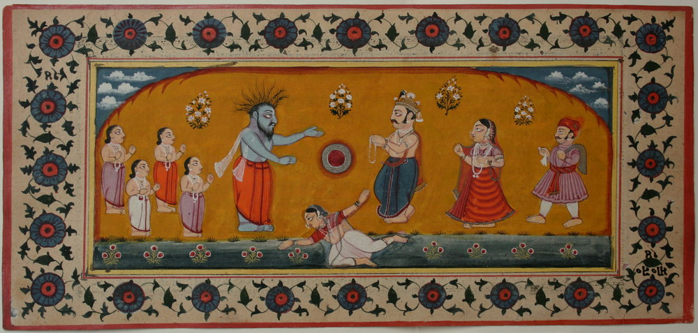 Ambarisha and Durvasa: "Folio from a Bhagavata Purana manuscript: rishi Durvasa, King Ambarisha, Vishnu's sudarshan chakra (a weapon used to destroy enemies) hovering between them as nearby the devi Ganga wades through the waters"